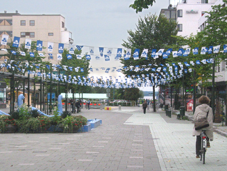 Järvenpää city centre, Finland